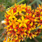 Quinchamalium Schoepfiaceae